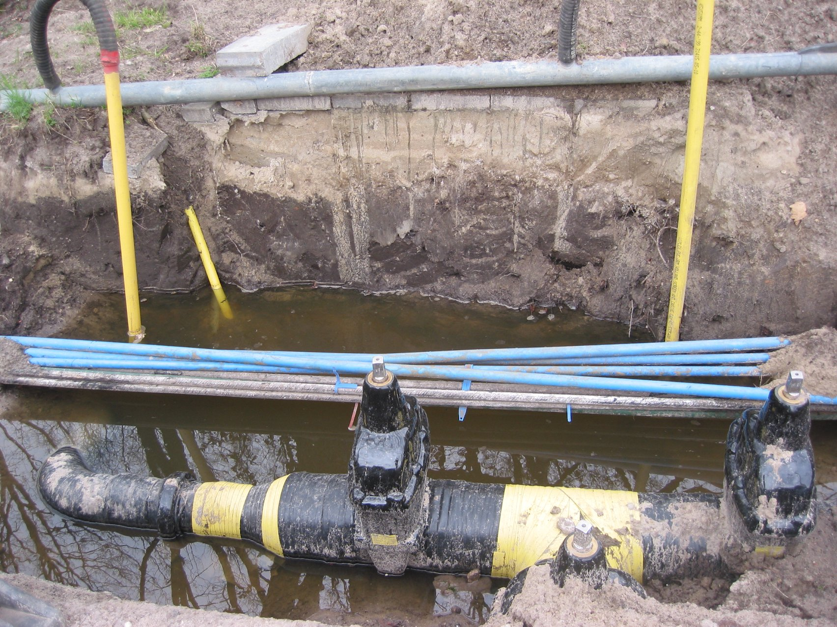 Pipes in groundwater